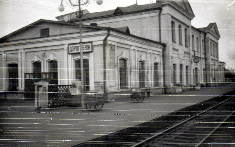 Vintage photography of Safonovo railway station (then called Dorogobuzh Station).